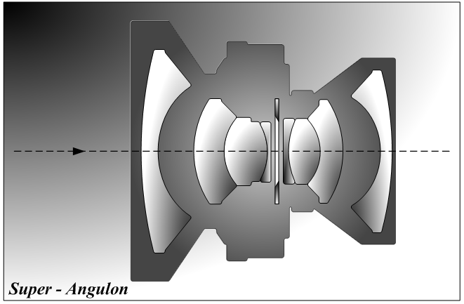 Super-Angulon lens.